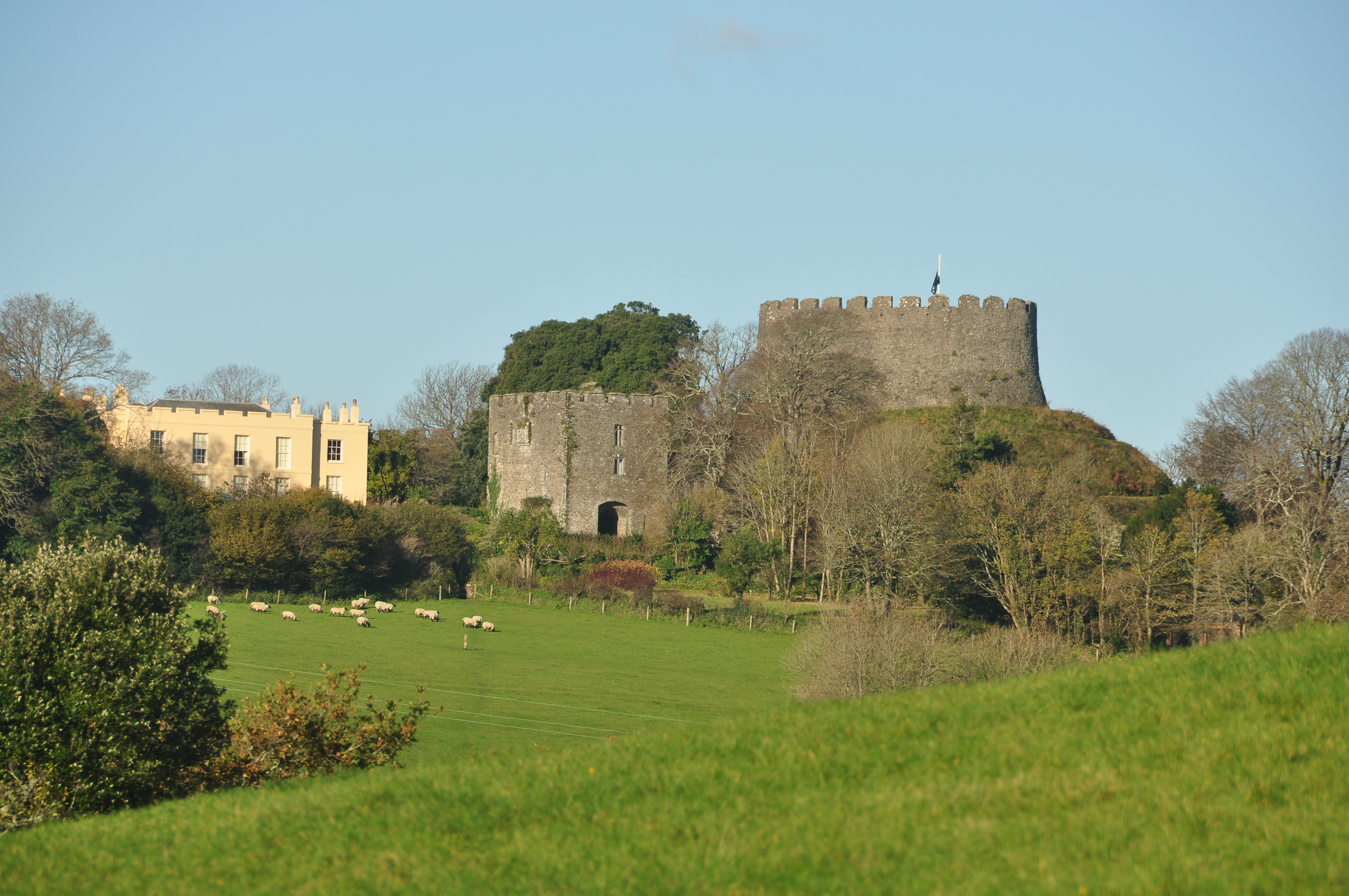 Trematon Castle